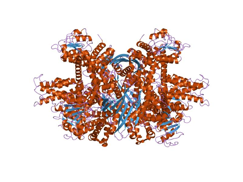 Cartoon representation of the molecular structure of protein registered with 1l1f code.